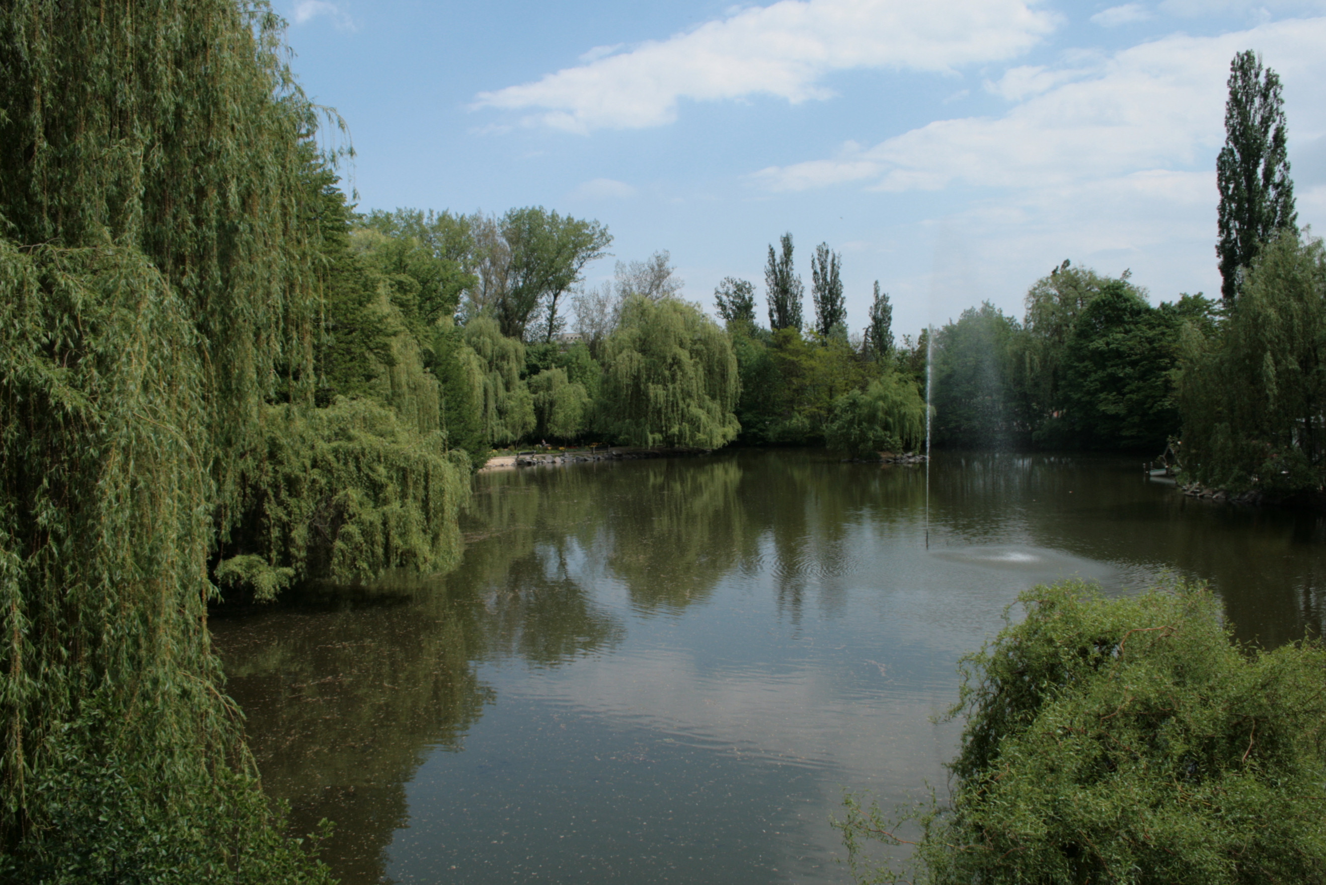 Lučenec, park.